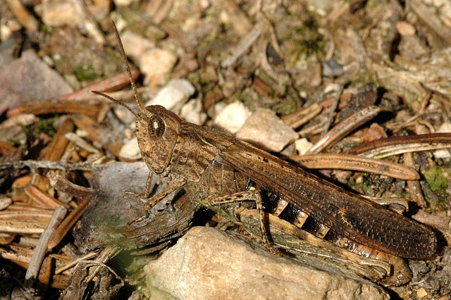 Picture taken in Commanster, Belgian High Ardennes . Species: Chorthippus biguttulus